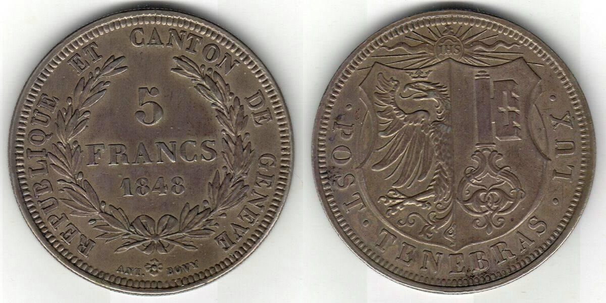 5 Francs from Geneva 1848